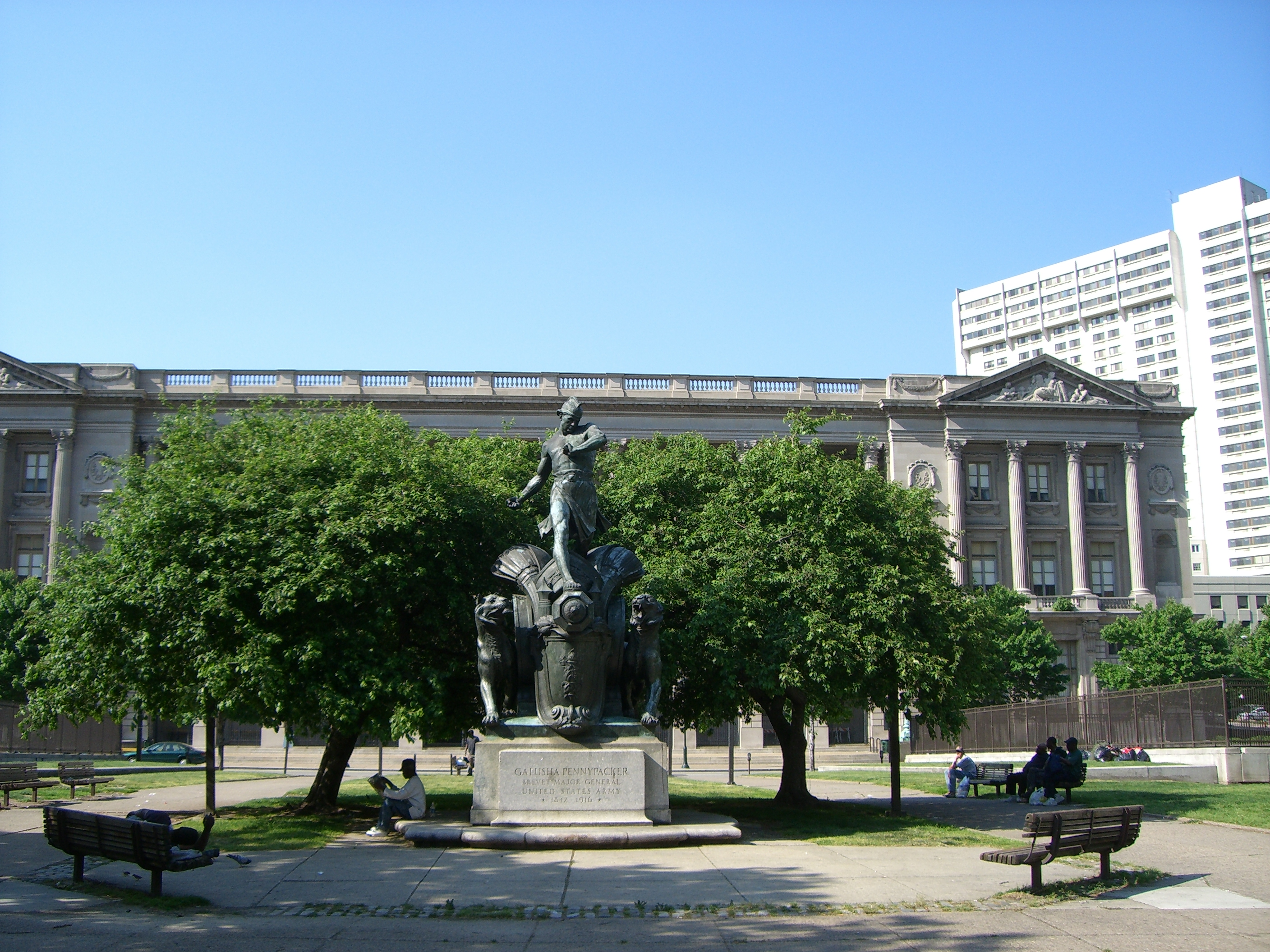 The Galusha Pennypacker Statue located off the north east side of Logan Square, Philadelphia, PA. Created by Charles Grafly, Albert Laessle, in 1934. A wide shot of the Galusha Pennypacker statue.